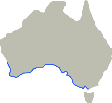 Map of range of Phycodurus eques Information from IUCN Red List.